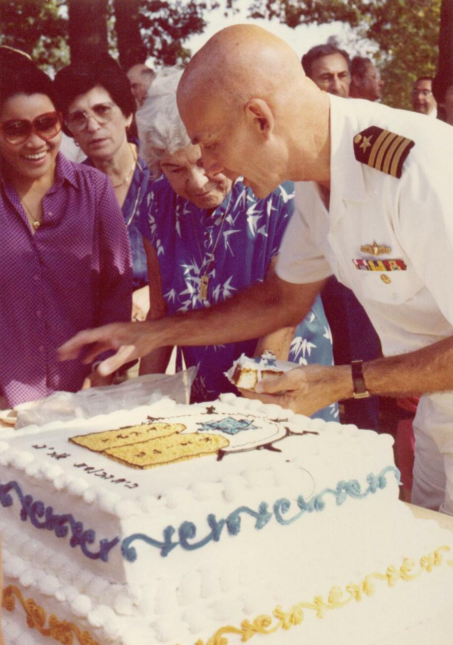 Navy Captain Louis Colbus, then Chief of Staff for Commander, Carrier Group EIGHT, takes the first piece of cake during "Jewish Pride in the Navy Day," September 12, 182, a community-wide celebration sponsored by the Commodore Levy Chapel (CLC), Naval Station Norfolk (NAVSTANORFOLK), Norfolk, Virginia. The cake shows the "Mariner's Tablets," the CLC symbol, based on the symbol for Jewish military chaplains (the two tablets of the Ten Commandments, topped by the six-pointed Jewish Star), but with the ship's wheel added at the top. The celebration included the dedication of a massive wall hanging designed by local Norfolk artist Leonette Adler, based on the biblical verse from Isaiah, "Sing God's praise anew from around the world, all who sail the sea." The wall-hanging, the brainchild of Rabbi Arnold E. Resnicoff, serving as the NAVSTANORFOLK Jewish Chaplain, was worked on during the time Resnicoff's father, Jack Resnicoff, passed away, and the Jewish congregation dedicated the work to his memory. The celebration included shuttle buses between the Chapel and a number of Navy ships, to allow participants to enjoy shipboard tours.